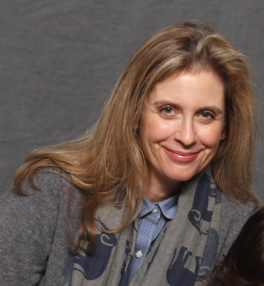 American actreess Helen Slater.